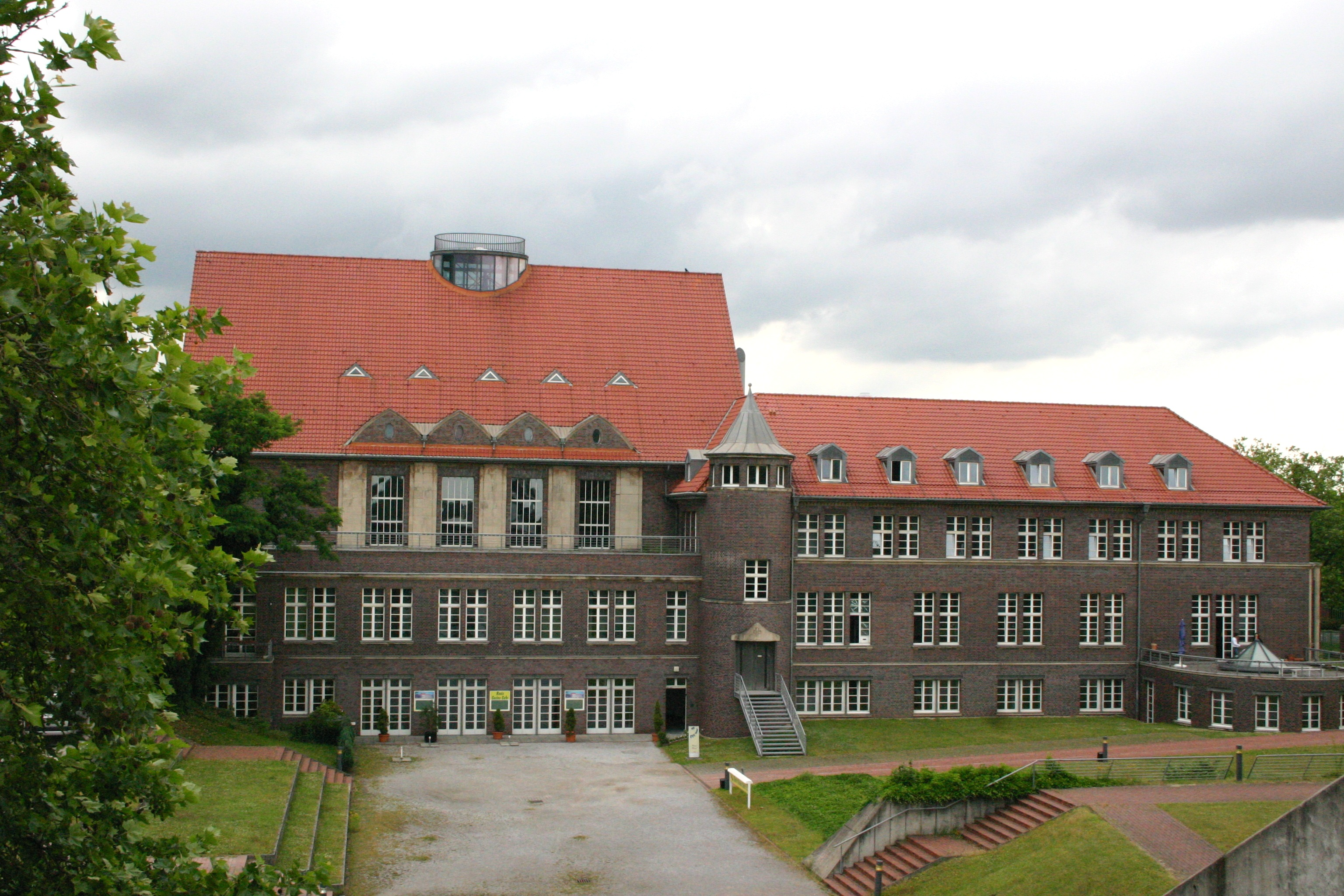 Former guest-house of the Gutehoffnungshuette (Oberhausen, Germany)